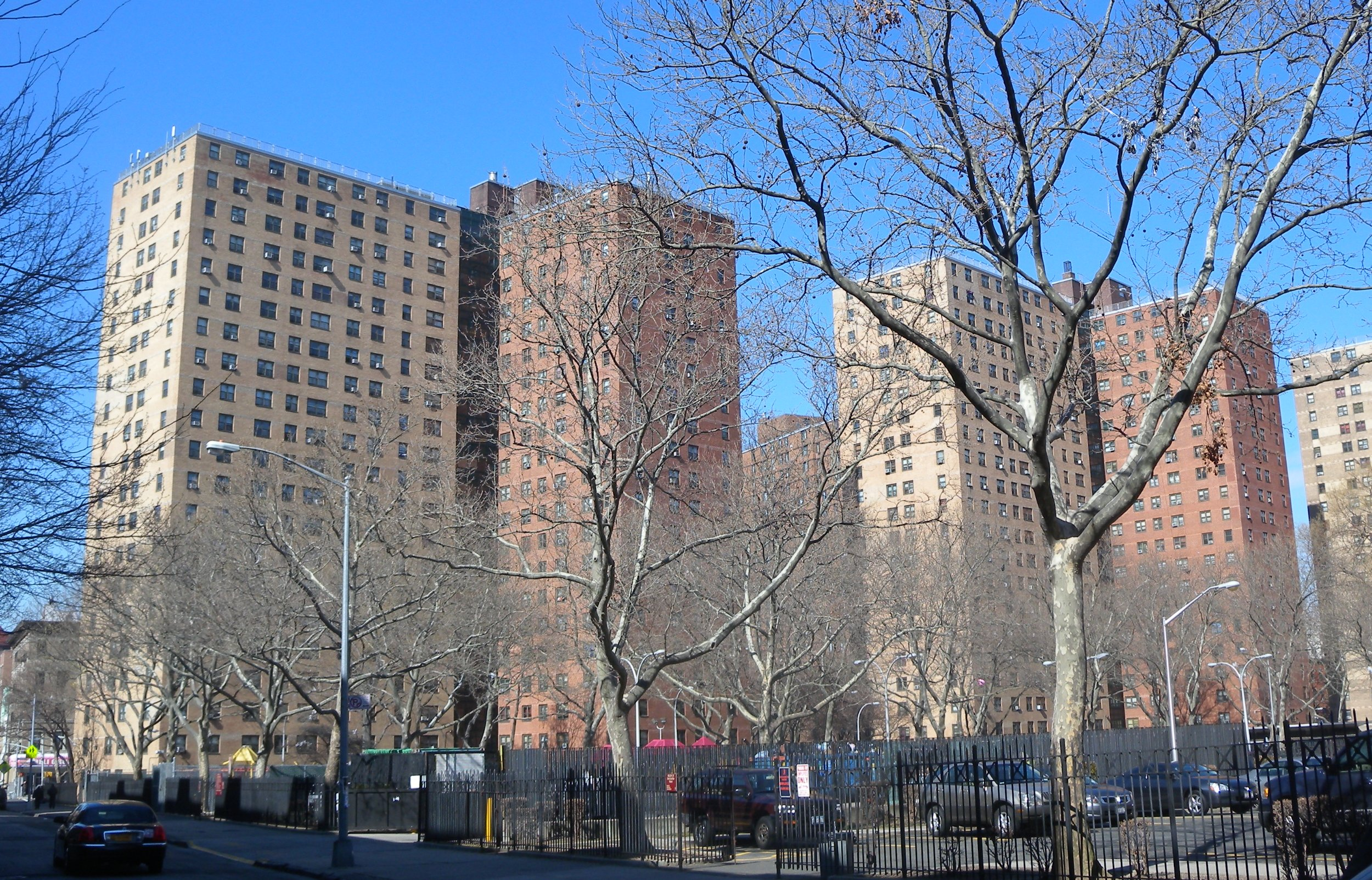 Looking north across 141st St at Drew-Hamilton Houses on a sunny midday.